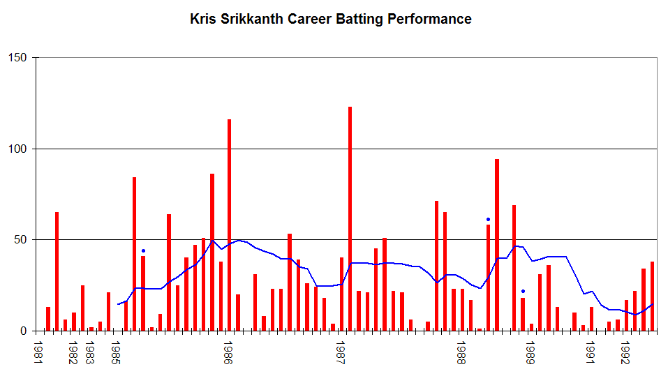 This graph details the Test Match performance of Kris Srikkanth. It was created by Raven4x4x. The red bars indicate the player's test match innings, while the blue line shows the average of the ten most recent innings at that point. Note that this average cannot be calculated for the first nine innings. The blue dots indicate innings in which Srikkanth finished not-out. This graph was generated with Microsoft Excel 2002, using data from Cricinfo and .au.